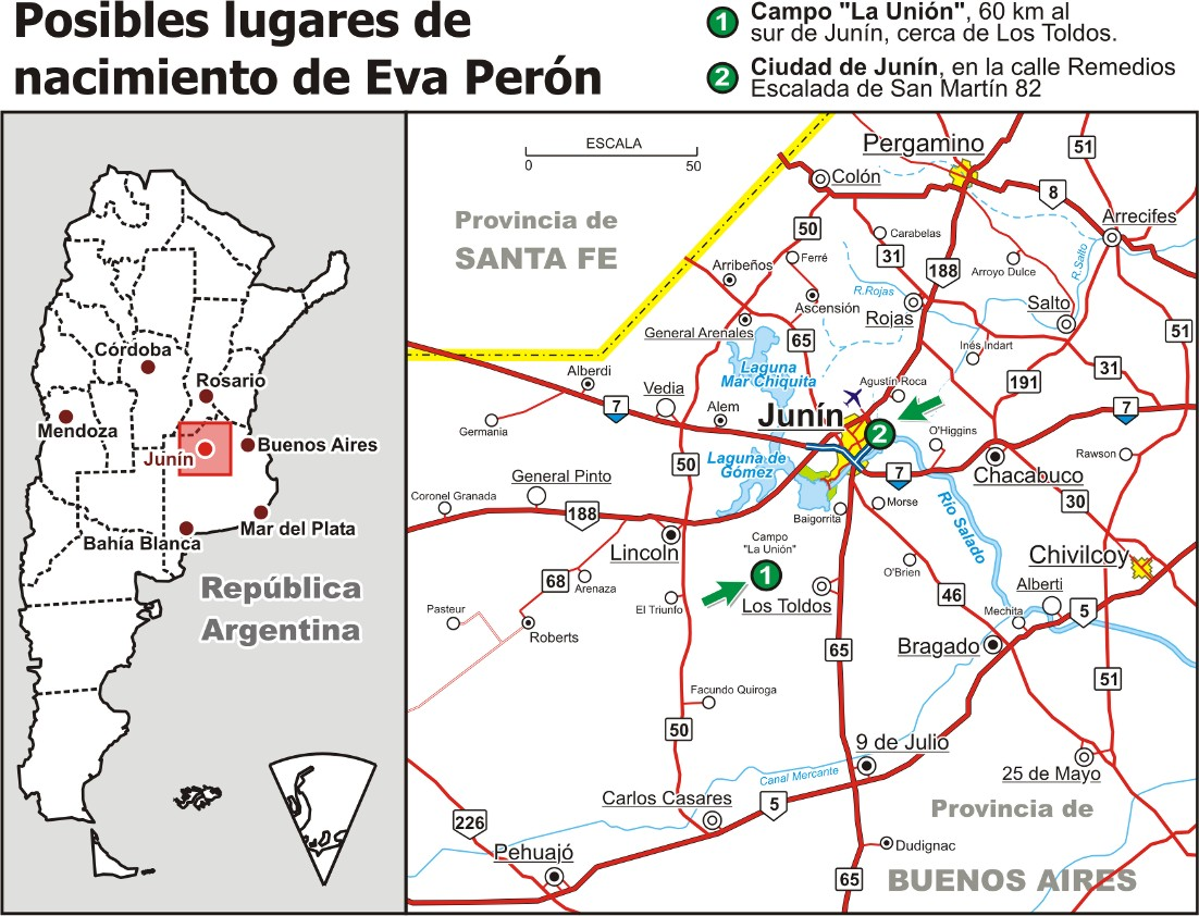 Map with the possible birthplaces of Eva Perón.